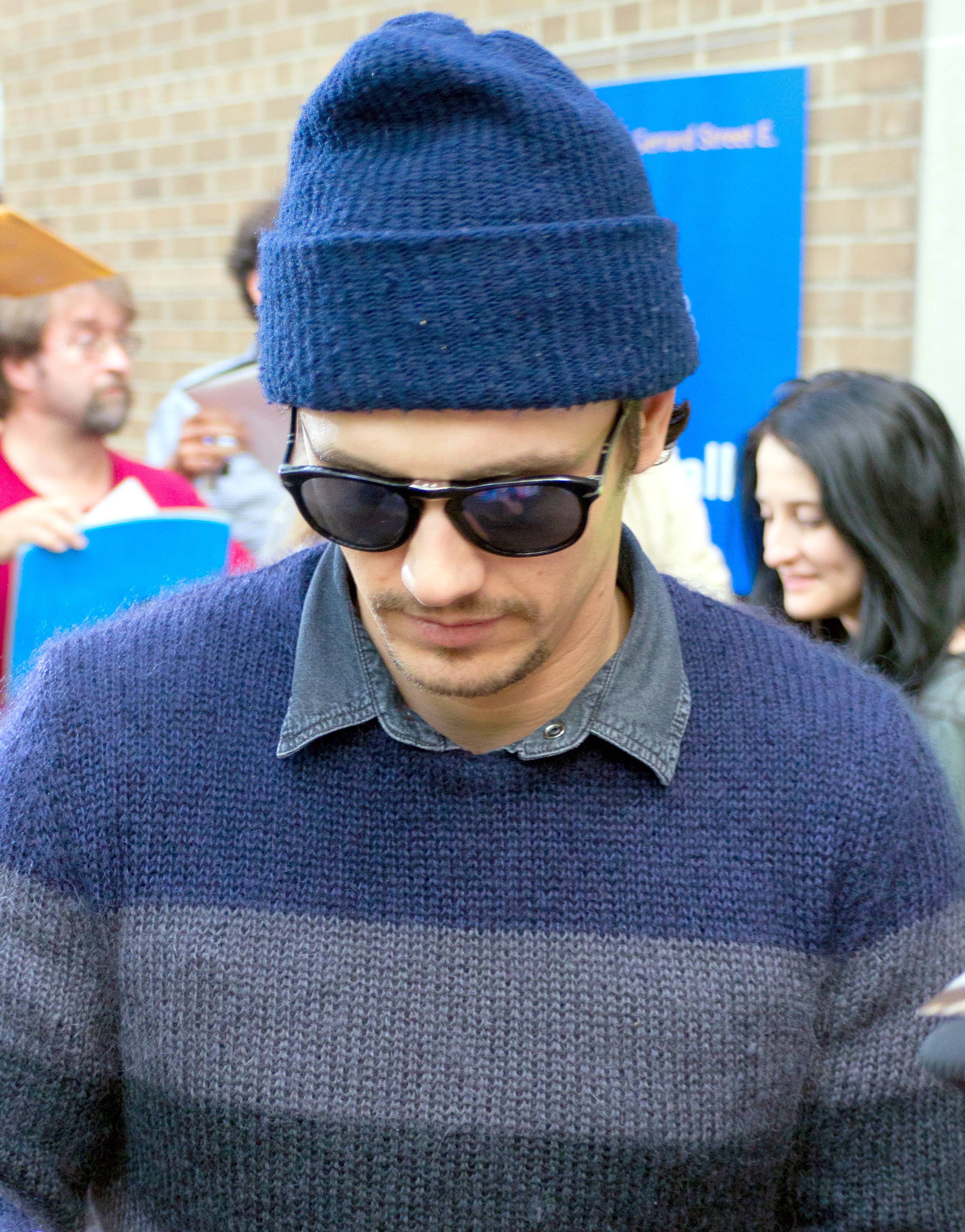 James Franco at the Toronto International Film Festival 2011.